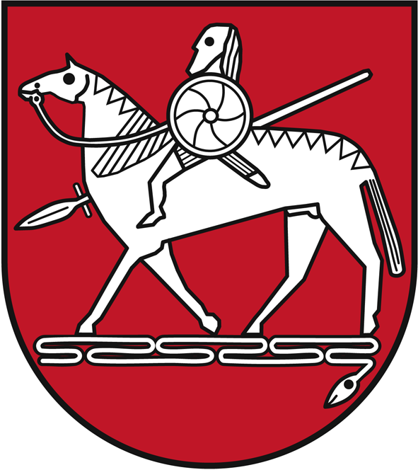 Coat of arms of Landkreis Börde